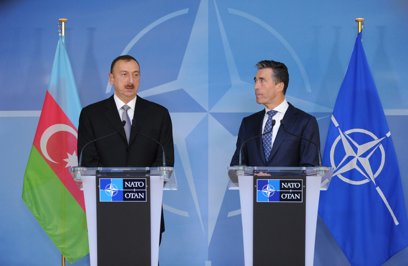 President of Azerbaijan and NATO Secretary General held a press conference